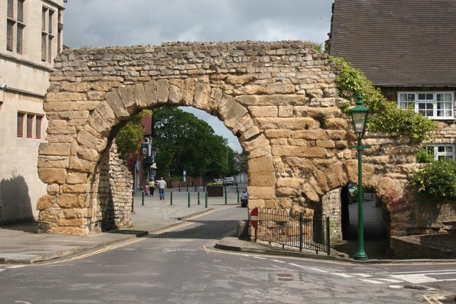 The Newport Arch, a 3rd century north gate to the Roman upper city, Lincoln, England